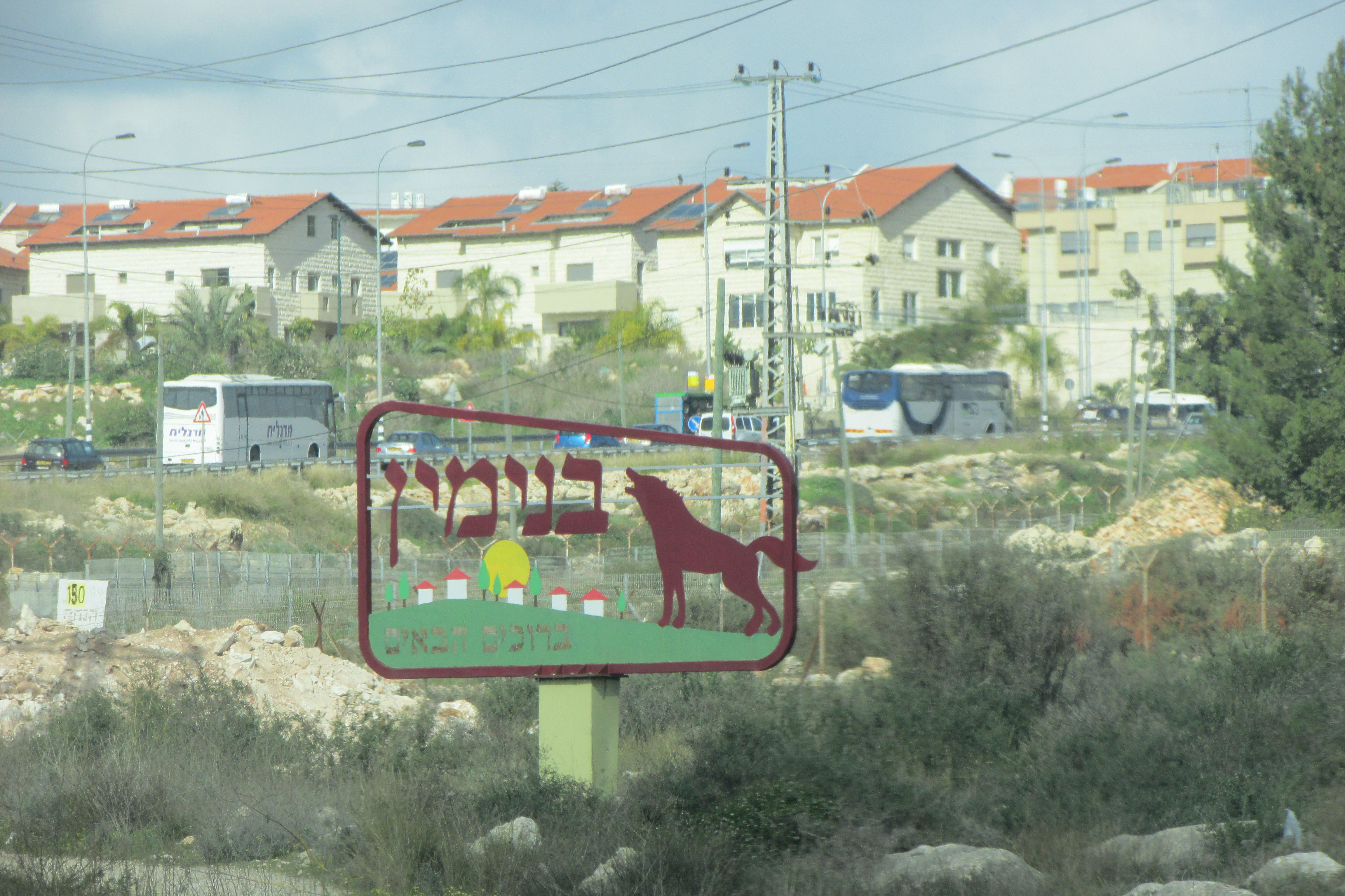 Mateh Binyamin Regional Council sign near Hashmonaim